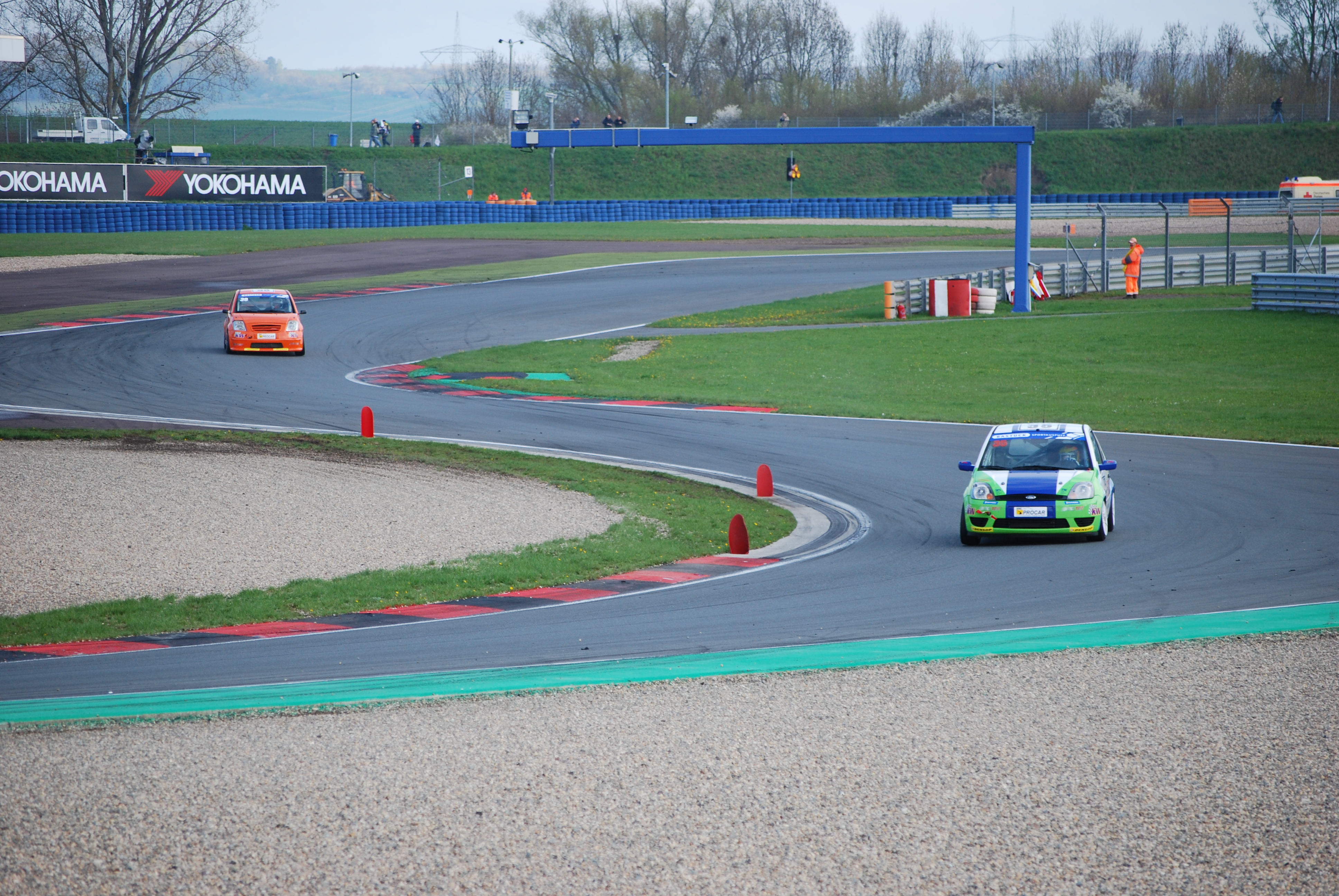 ADAC Procar Race 1 - #35 Pascal Hoffmann and #38 Olaf Müller